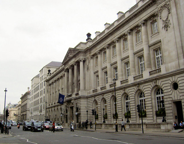 RAC Club Pall Mall London Stanley Howe suggested: A visitor's guide to London (1973) asserts that this building 'rightly asserts Edwardian opulence at its worst'! Talk about damning with faint praise.